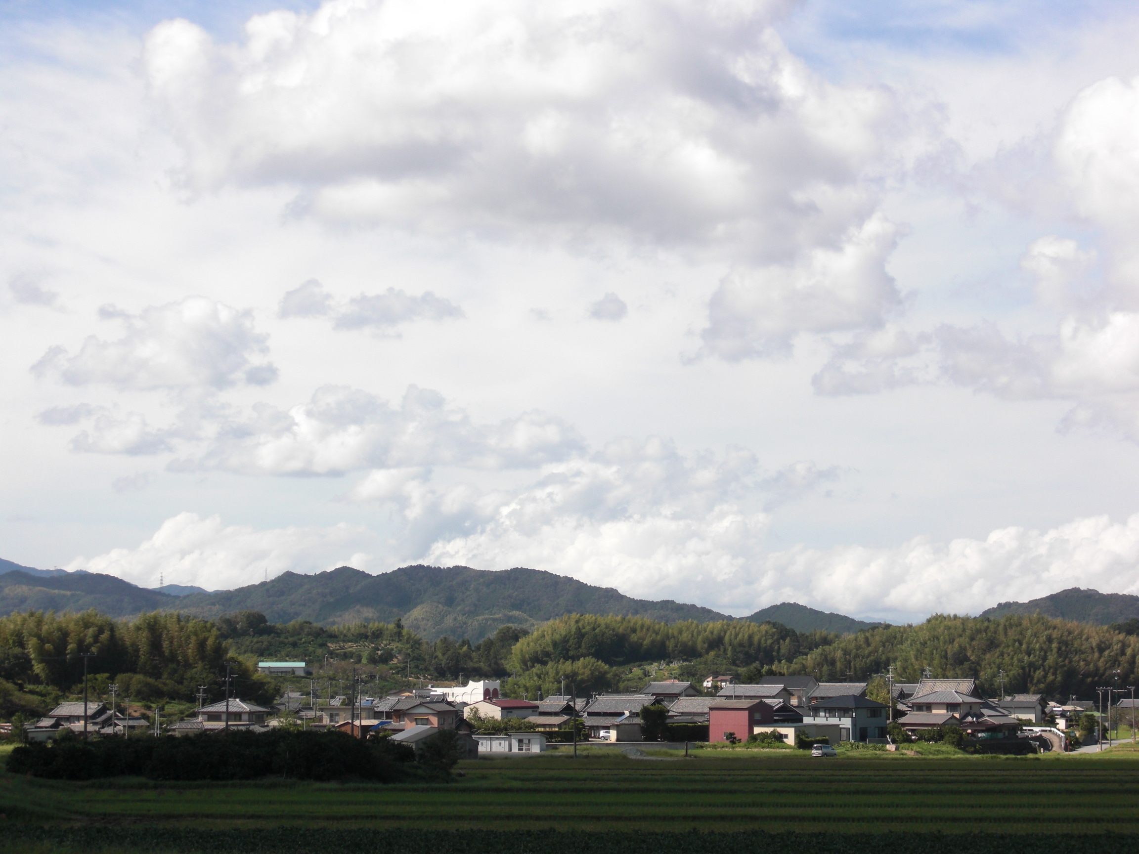 This is a landscape of Yubu, Taki, Mie, Japan.